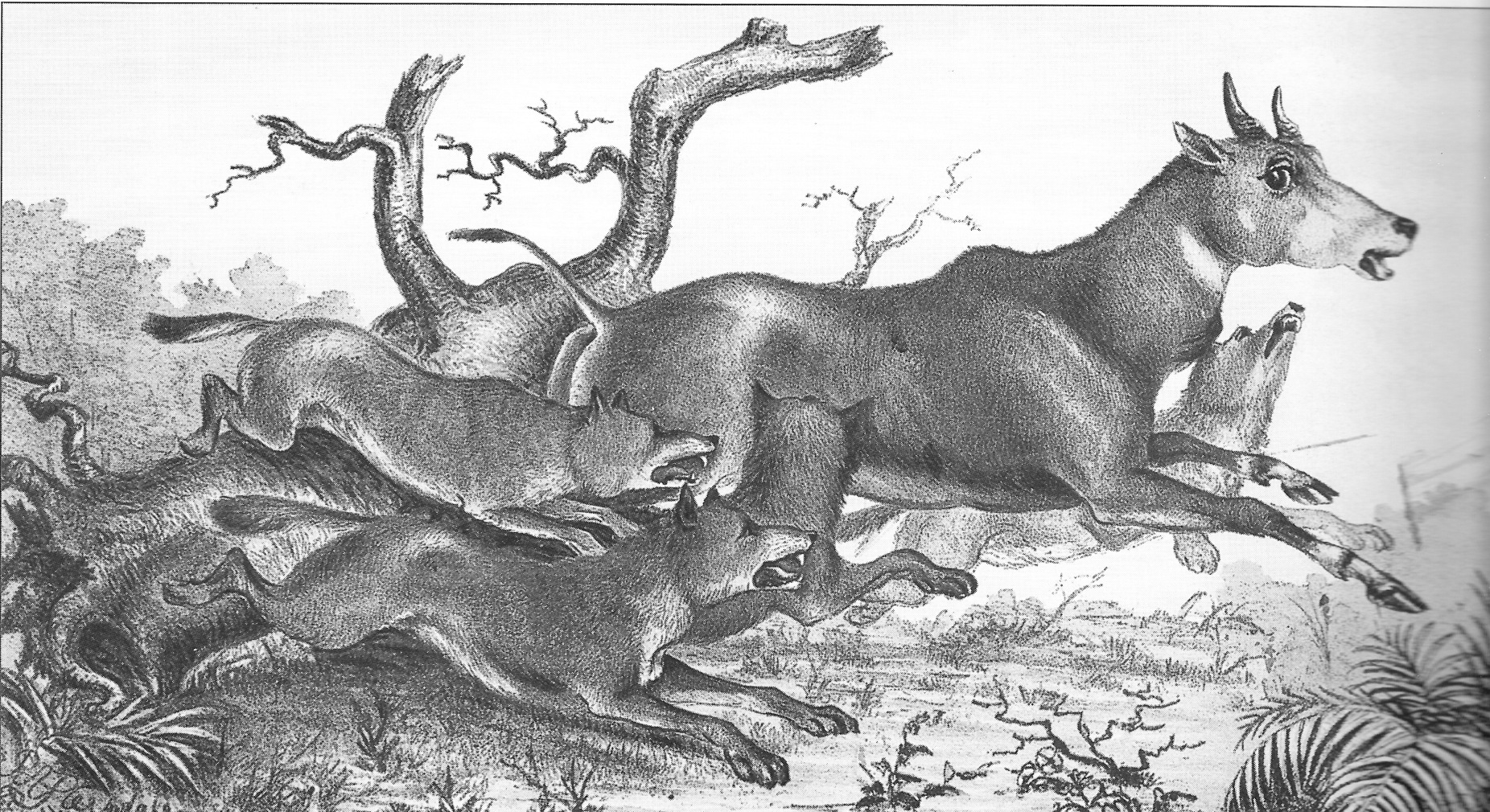 "A Race for Life", wild dogs chasing a nilgai."